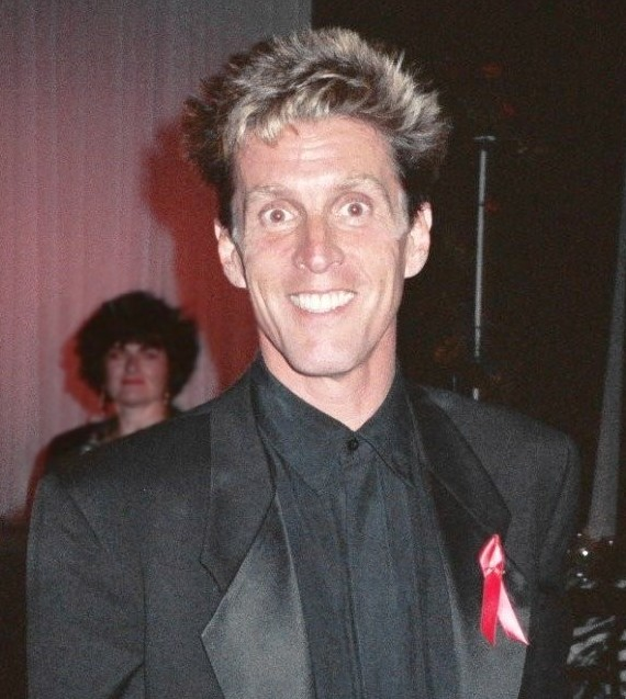 John Glover at the 1991 Emmy Award show.